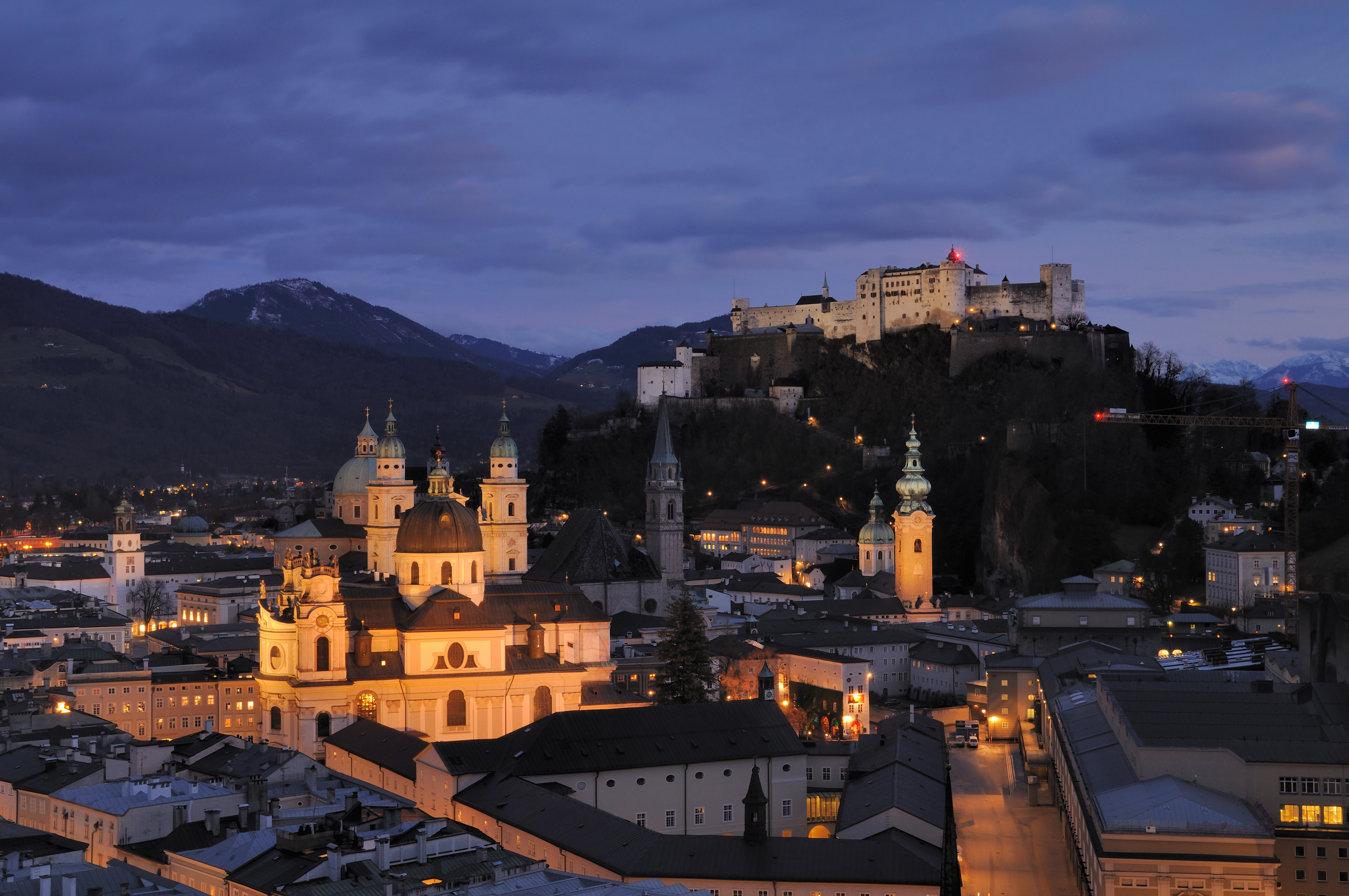 City of Salzburg (Austria) with its old town and its fortress, view from Mönchsberg